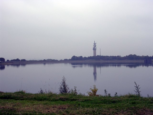 Heaton Park Reservoir. Looking in an easterly direction across Heaton Park Reservoir and into Heaton Park. The aqueduct carrying water from Haweswater, in the Lake District, to Manchester terminates here. The aqueduct was inaugrated in June 1955, is 82 miles in length and carries up to 100 million gallons per day under gravity. SD82290510.